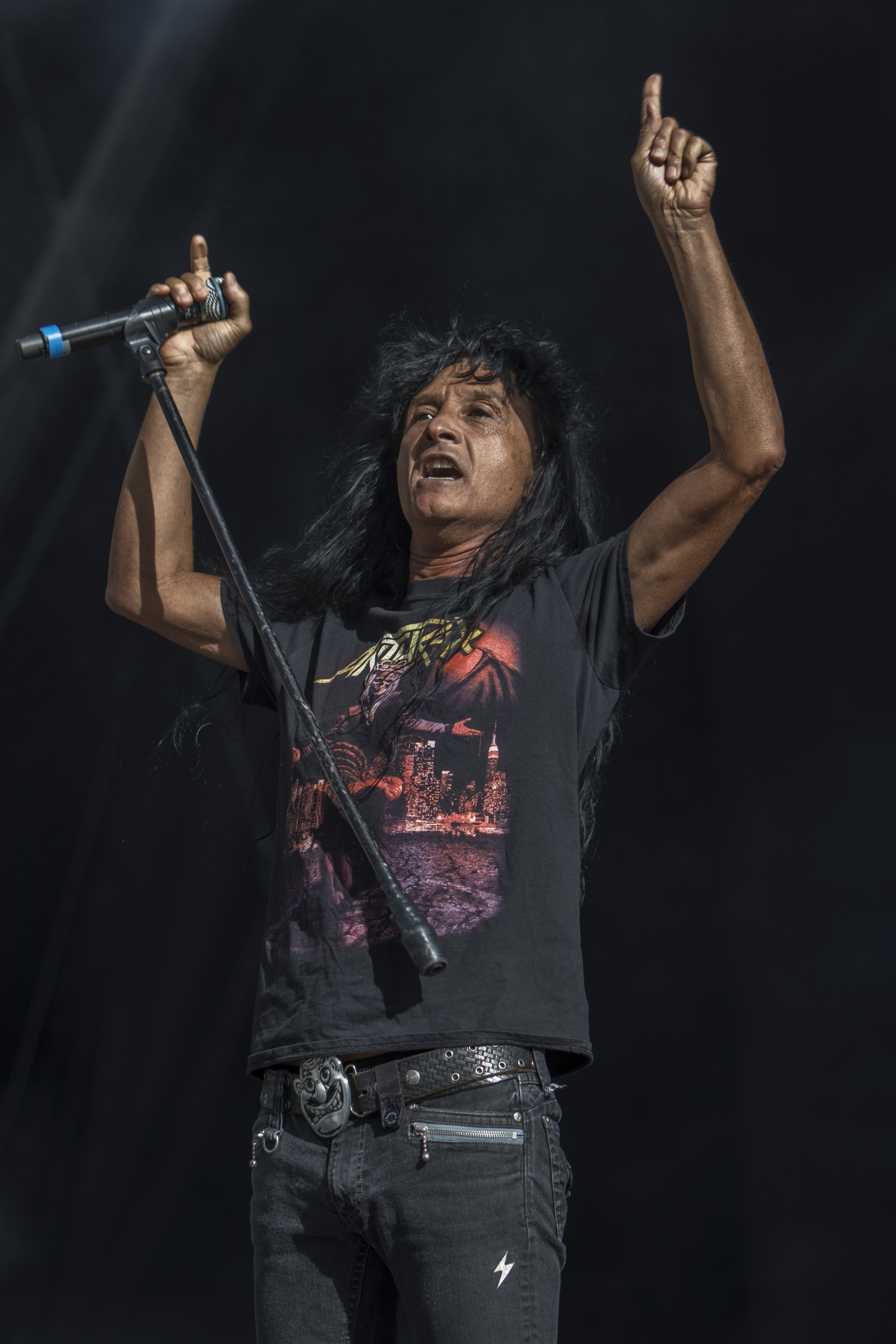 Anthrax at Tuska Open Air Metal Festival 2019 in Helsinki, Finland (Kalasatama)